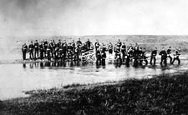 Photograph of the Halifax Provisional Battalion fording a stream near Wikipedia:Swift Current, Saskatchewan, 1885